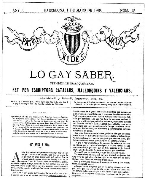 Catalan periodical magazine Lo Gay Saber, published 1868-1883